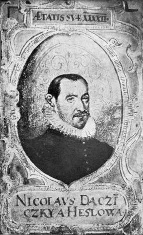 Mikuláš Dačický z Heslova